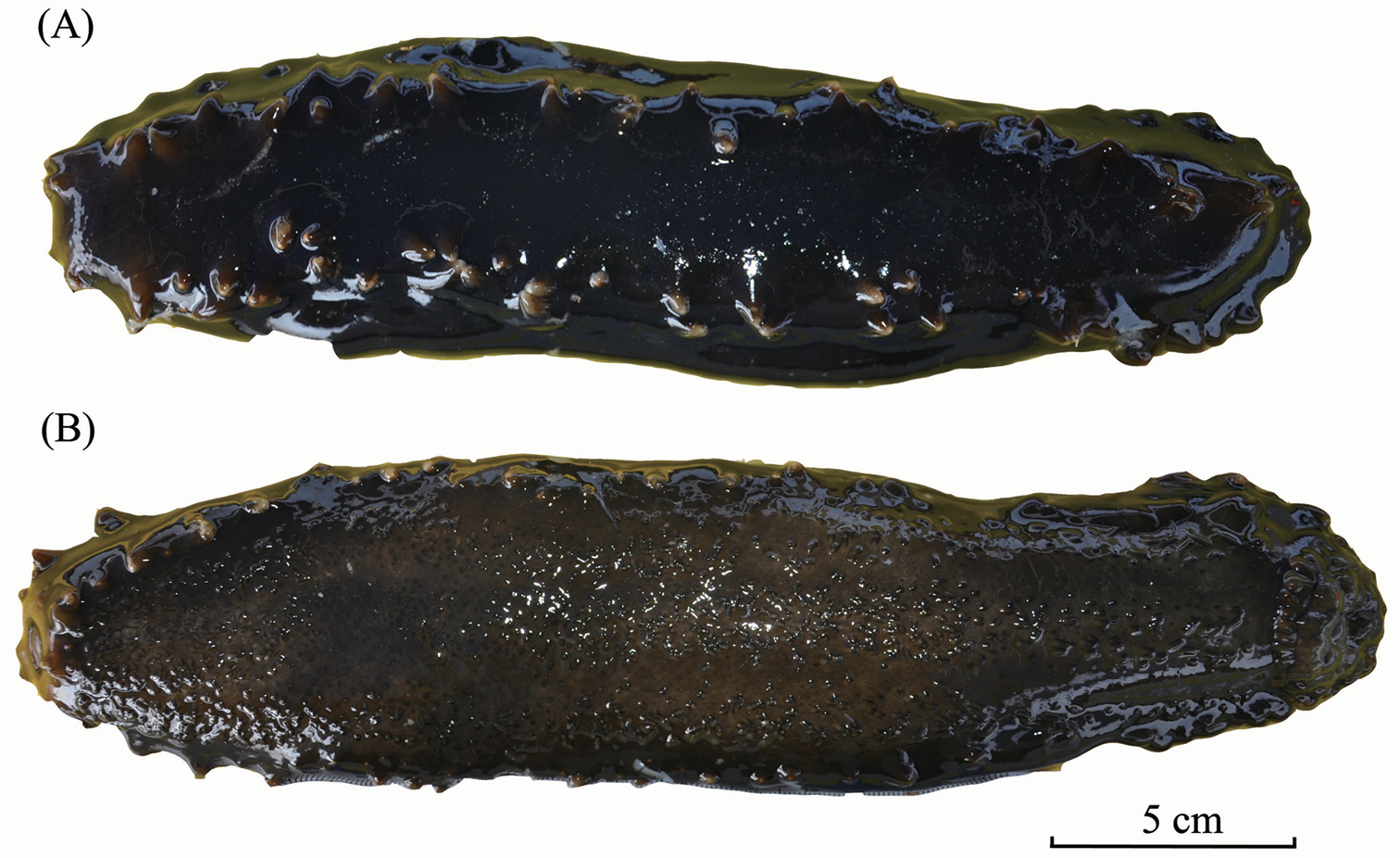 Stichopus chloronotus Brandt, 1835. (USM/MSL/PB004), dorsal (A) and ventral (B) views.